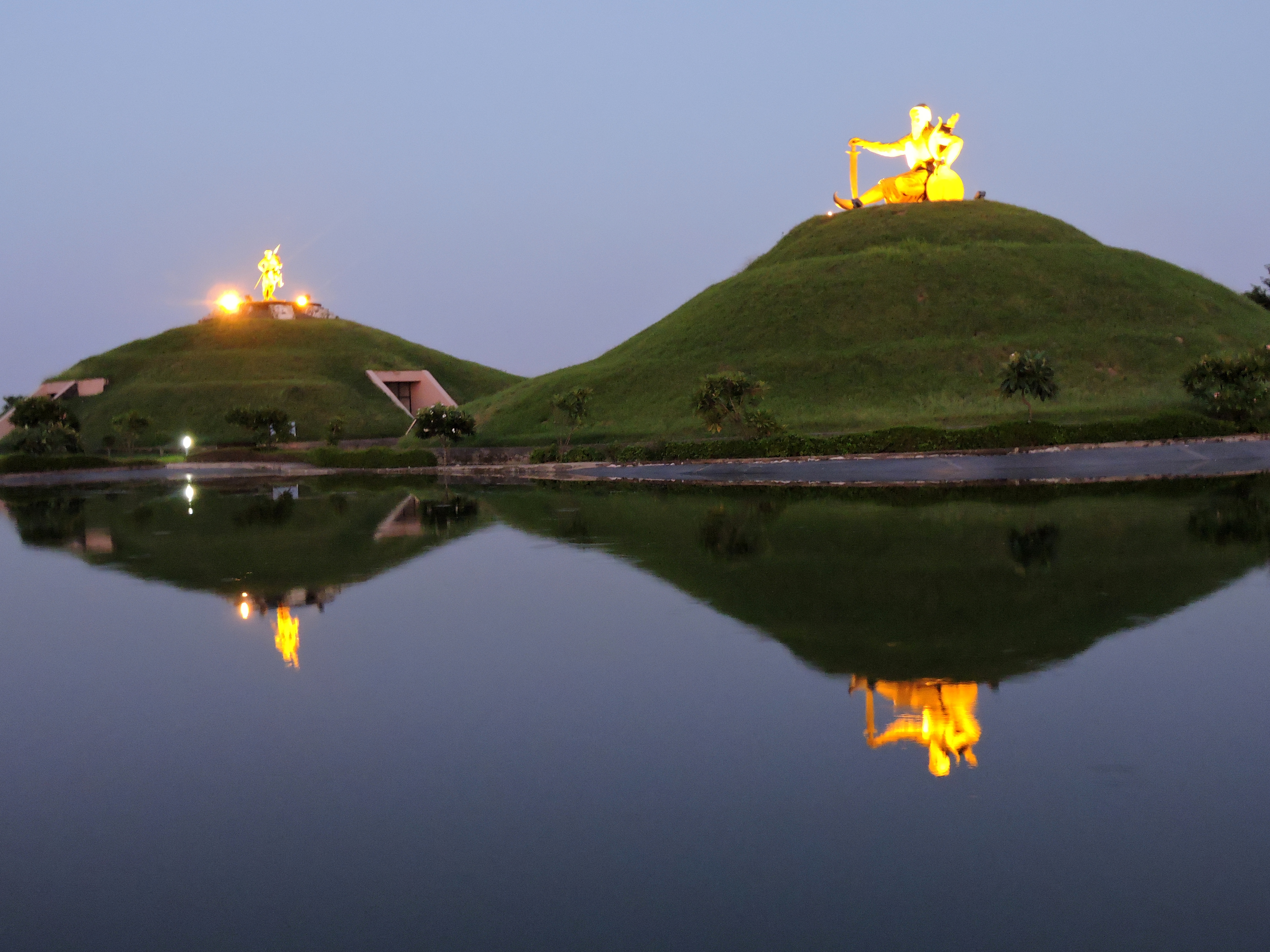 Statues of Banda Bahadur, Mohali, Punjab ,India